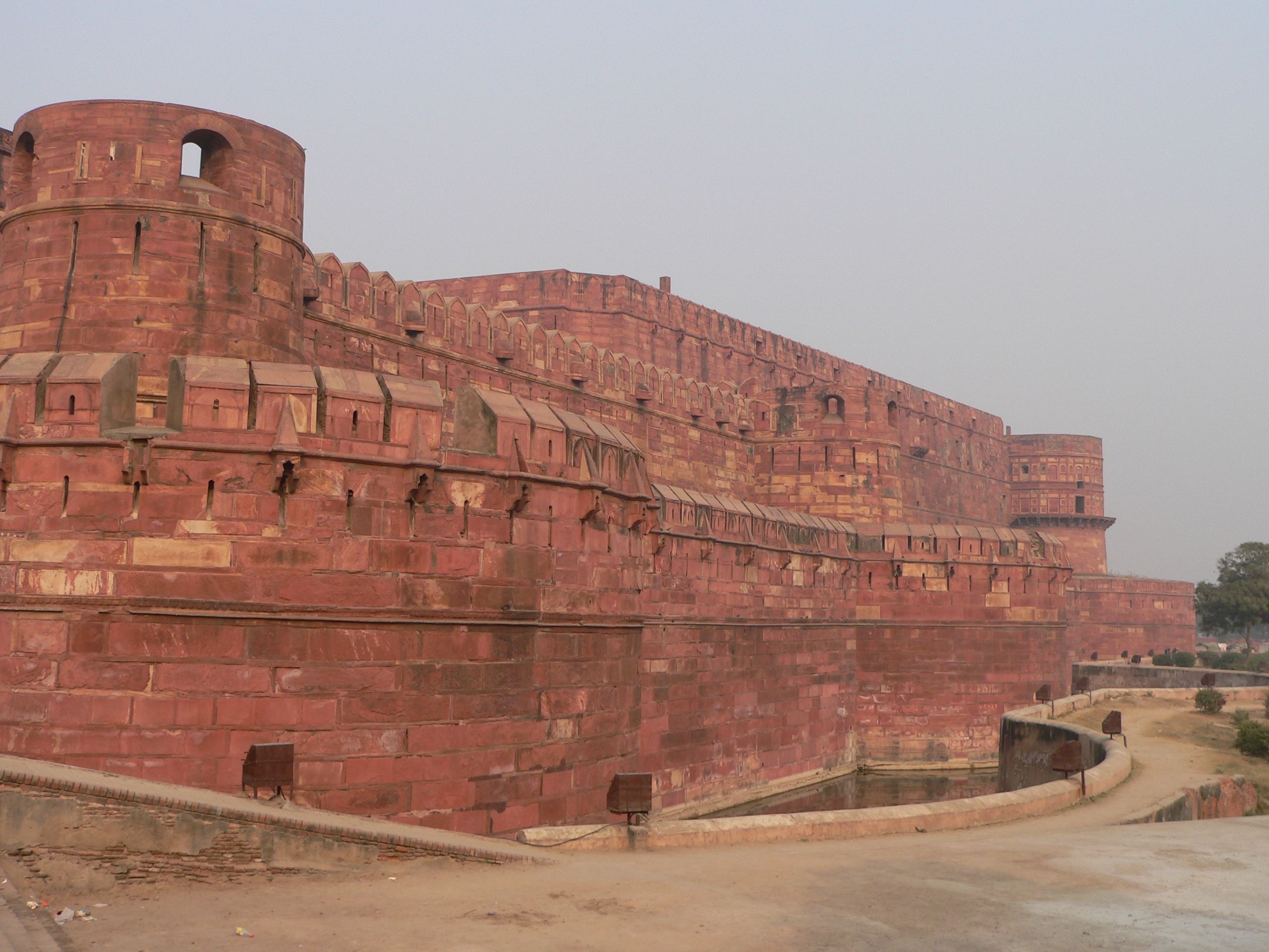 Author: Florent AIDE Source: My Camera Description: Taken in Agra the 18th of Decembre 2005 This is the first wall of the Agra Fort